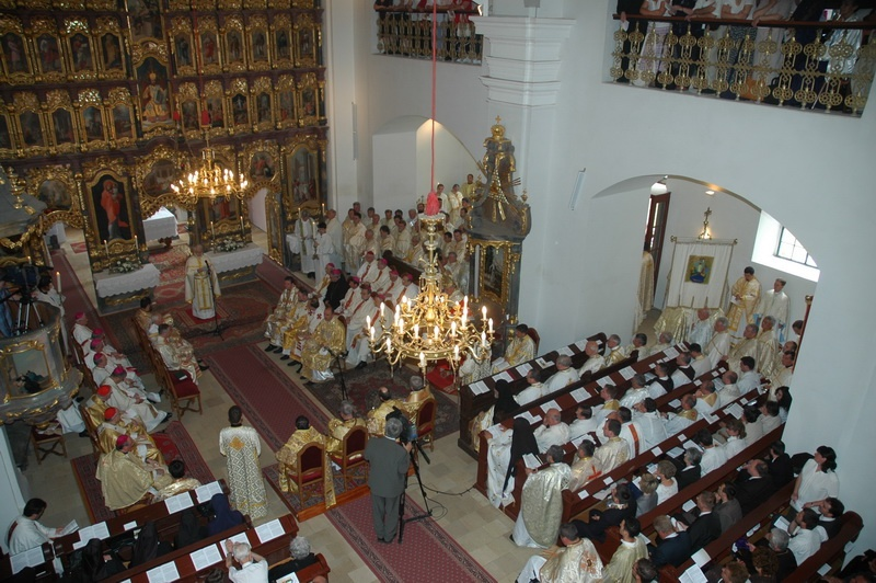 The opening ceremony of the ordainment of the new bishop, Fülöp (Philip) of Hajdúdorog. The ordainment took place in the Greek Catholic Cathedral of Hajdúdorog on the 7th of July 2008. Fülöp is the head of the Hungarian Greek Catholic Church. The ceremony was opened by the eparch of the cathedral, Bazil Pásztor.